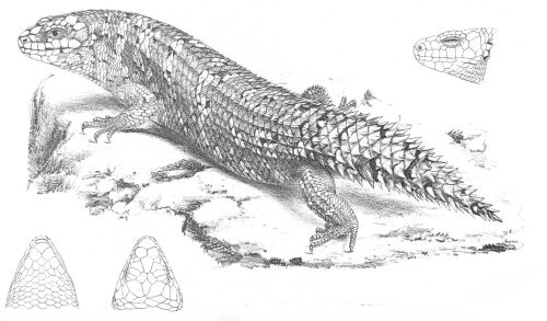 This is an image entitled "Silubosaurus Stokesii" from Volume 1 of John Lort Stokes' 1846 book Discoveries in Australia. The lizard depicted is now known as Egernia stokesii stokesii.